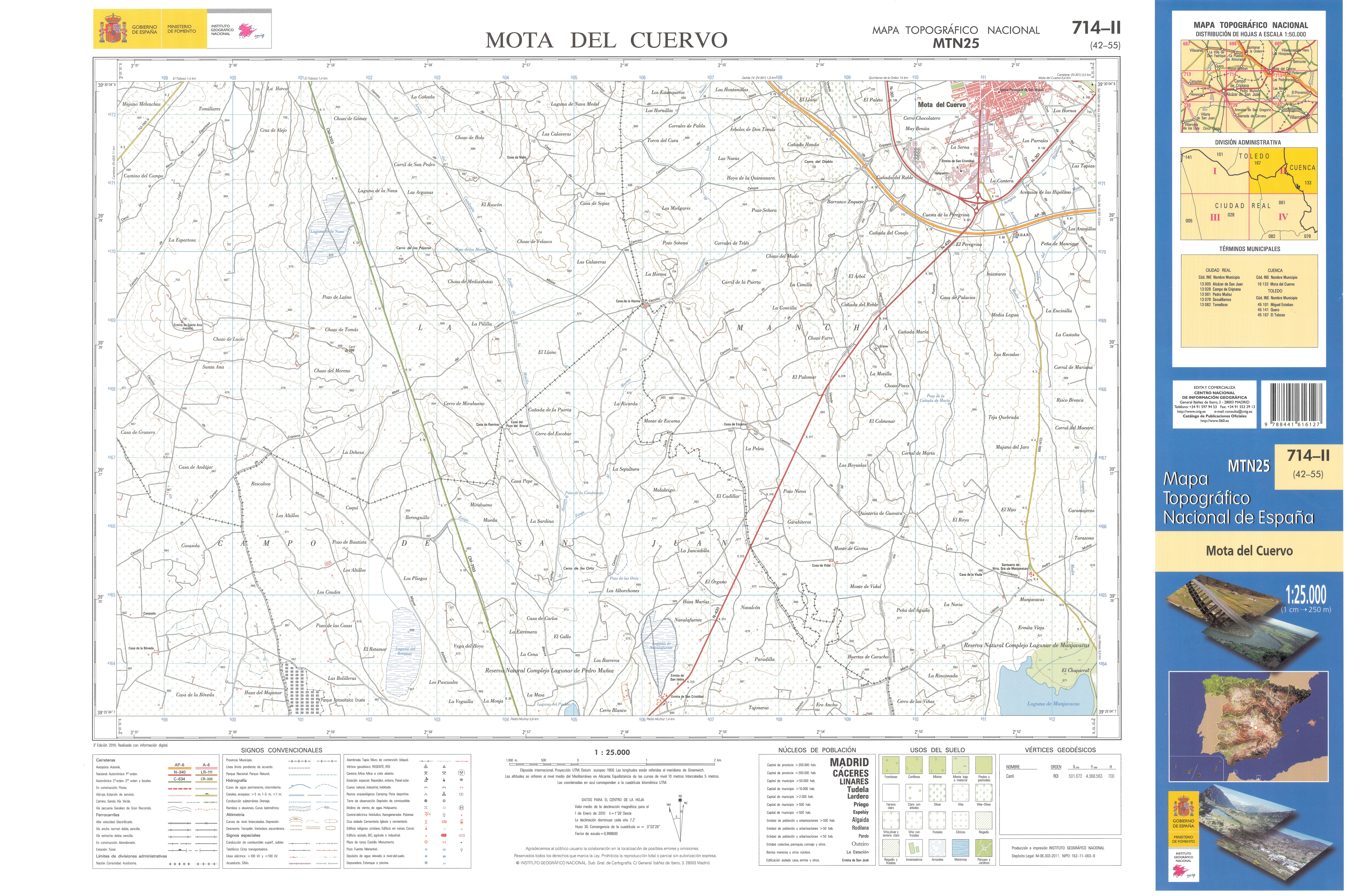 Fragment 0714c2 of the National Topographic Map of Spain in 2010 at a scale of 1:25000 printed and scanned with a resolution of 250 ppi. It shows Mota del Cuervo.